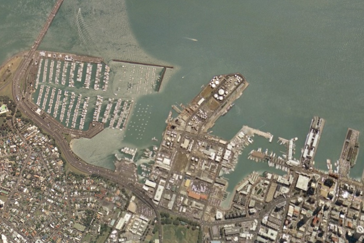 The western Auckland waterfront ca early 2000s. Auckland Harbour Bridge and Westhaven Marina at the west, Victoria Park to the south, the Western Reclamation in the centre, with the Viaduct Basin harbour / precinct at the centre right. Princes Wharf development near the east edge, turning into Ports of Auckland land even further east. The Auckland City CBD at the southeast.